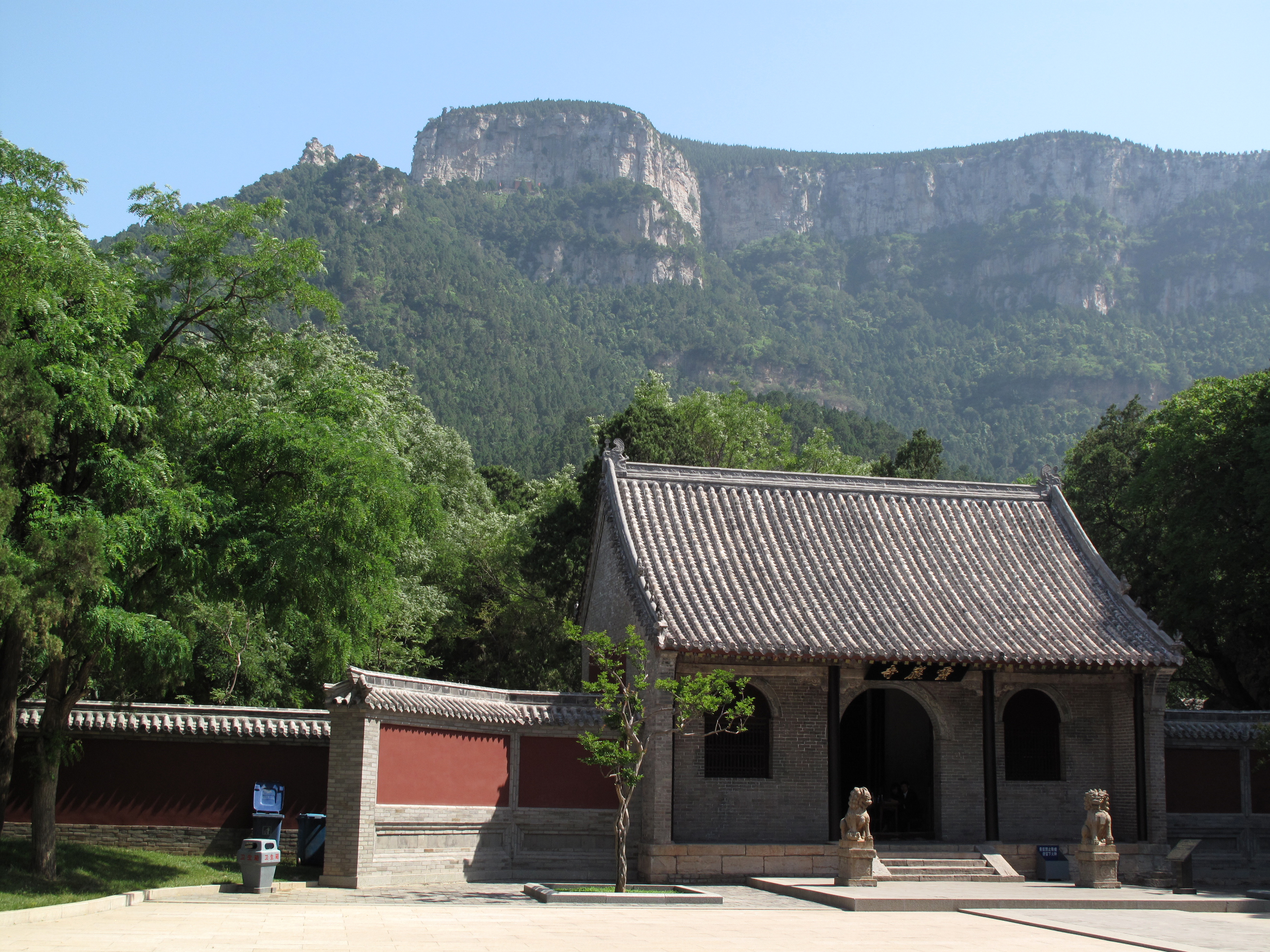 Lingyan Si. Jinan, Shandong Province The exquisite Ling Yan ("Magic Cliff") monastery is located in Changqing County, in a green valley about 45km (28 mi) SE of Jinan. Original foundations here date to the Tang dynasty, but the monastery reached the height of its glory during the Northern Song dynasty, when the renowned "40 Arhats" sculptures were installed in its Thousand-Buddha hall, and when the great Pizhi Pagoda (next page) was erected. The monastery is rich in history. According to Li Daoyuan ("Annotations to River Canons," Northern Wei dynasty), its original name was Fangshan, "Square Peak," from the mountain formation shown in the photograph above. Another association is with the Zen cult of tea, that was introduced during the Tang dynasty to keep the meditating monks awake.